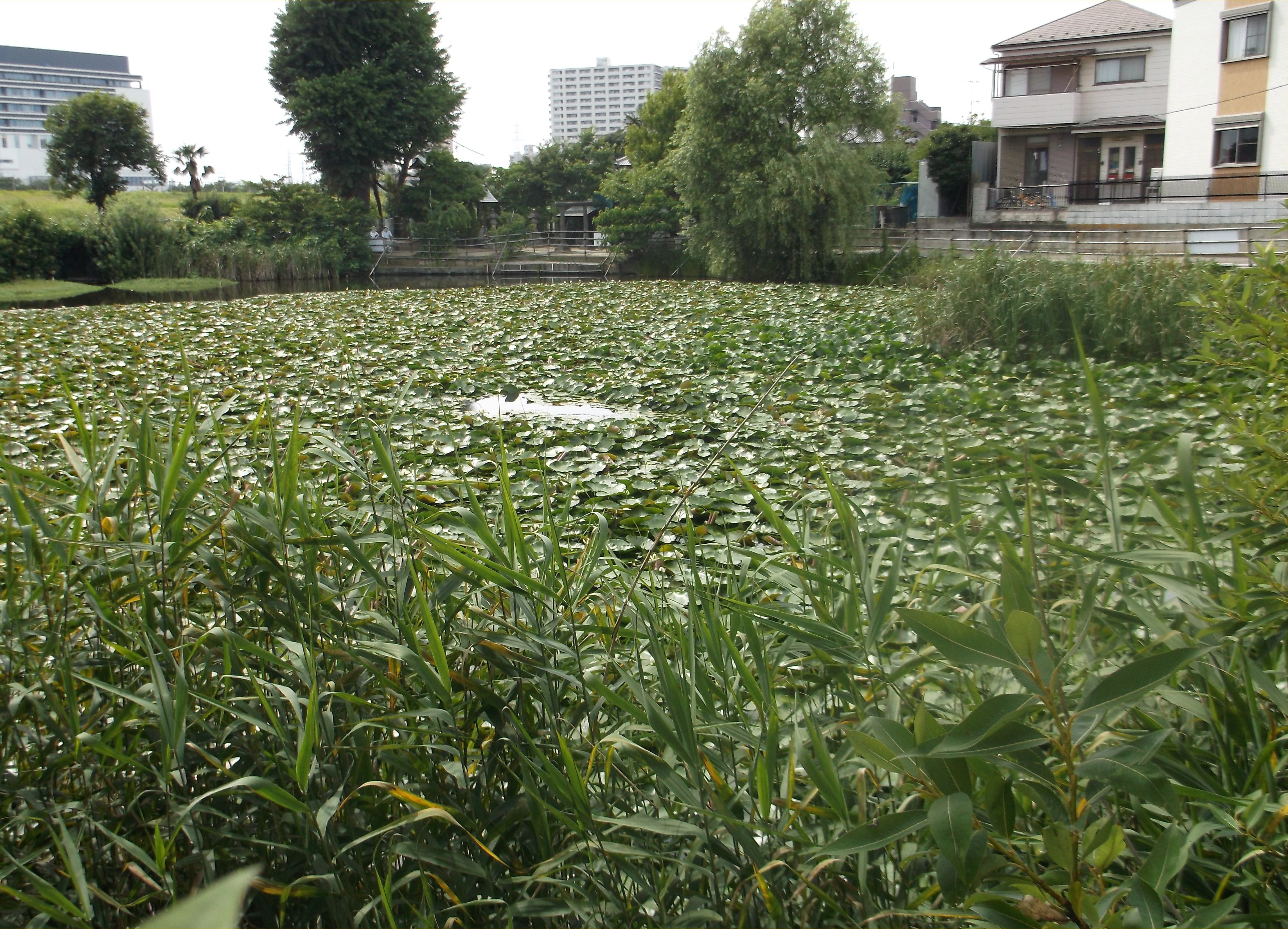 A photo of "kenashi-ike" pond ,Takasago,Katsushika-ku,Tokyo,Japan.